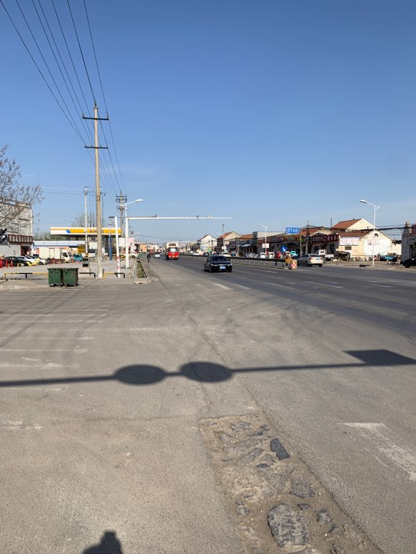 view Qingtian Town along the 319 Provincial Route